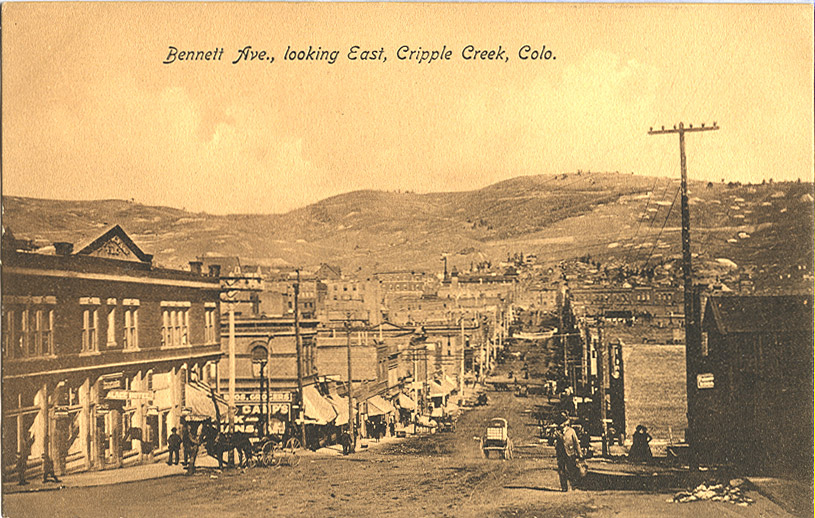 Postcard picture of Bennett Avenue, looking east in Cripple Creek, Colorado. eBay store Web page states: "This is an authentic ca. 1900s/1910s "German printed litho" scenic postcard; size 3.5" x 5.5" [...] Image: View of Bennett Ave. [...] printed in the sharp-focus 'German Litho' technique without halftone dots, very closely resembling sepia-toned real photo, [...] Back: Divided, UNmailed. Publisher/Printer: Pub. by Owens Bros. Co., Boston, Berlin & Leipzig; Made in Germany #96821"